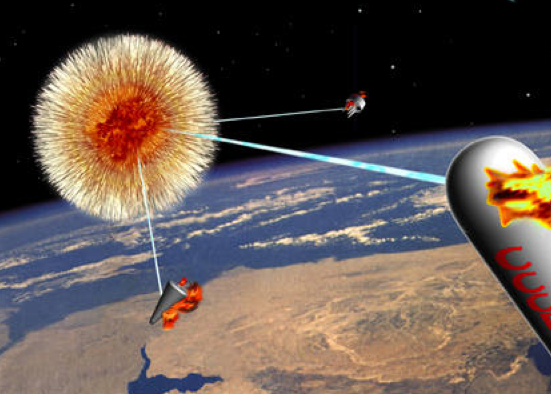 Excalibur was a proposed x-ray laser based anti-missile technology. It used a nuclear warhead surrounded by a number of metal rods that acted to focus the output of the explosion into narrow beams that would be aimed at nuclear missiles and their warheads. This image shows a single Excalibur exploding in the upper left of the image and firing at three targets. In practice, each warhead would fire at dozens or thousands of targets at once